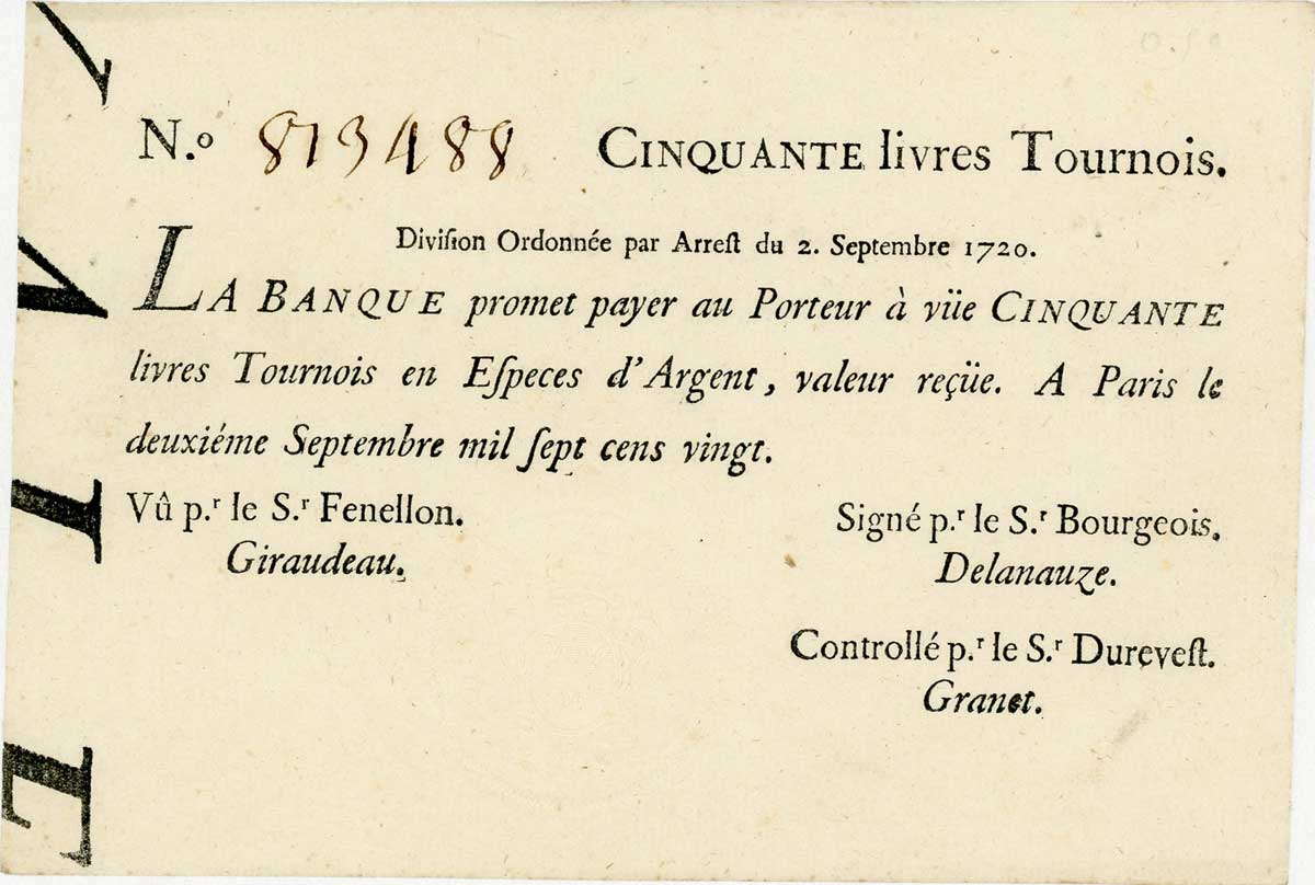 50 livres tournois typographiées et datées du 2 Septembre 1720